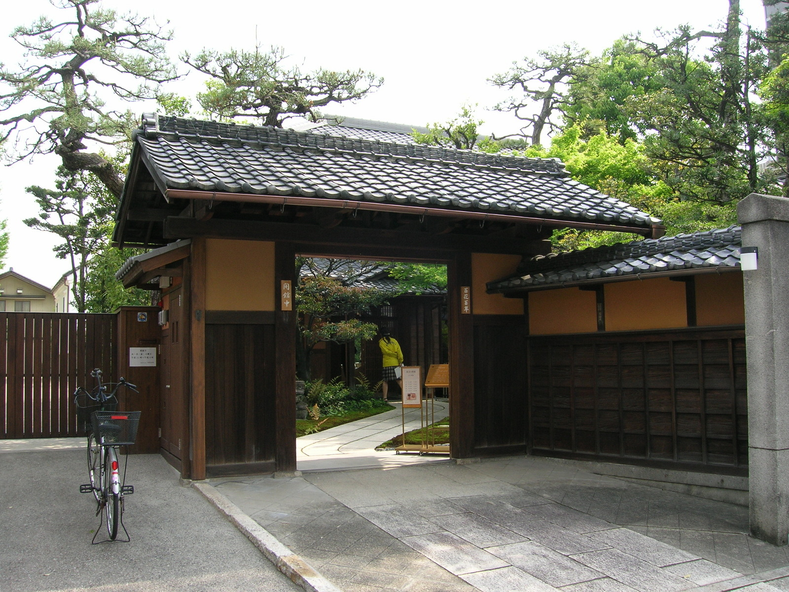 Bunka-no-michi (The Cultural Path) "Hyakka Hyakuso". Loc: Higashi-ku, Nagoya city, Aichi Prefecture, Japan.